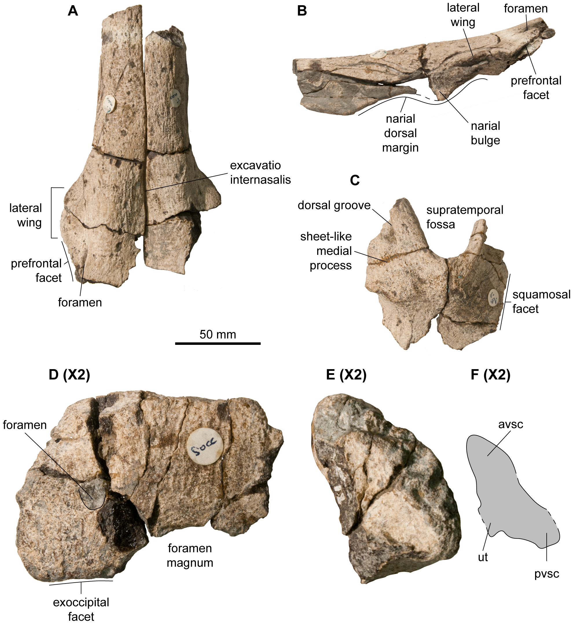 Skull roof of Acamptonectes densus (GLAHM 132588, holotype). A: articulated nasals in dorsal view. B: left nasal in lateral view. C: right supratemporal in dorsal view. D–F: supraoccipital magnified two times with respect to the other bones, in posterior view (D) and in left anterolateral (otic) view (E,F). Note the lateral wing of the nasal forming an overhang on the naris, the narial process of the nasal, the long and straight squamosal facet of the supratemporal, and the weakly arched shape of the supraoccipital. Abbreviations: avsc: impression of the anterior vertical semicircular canal; pvsc: impression of the posterior vertical semicircular canal; ut: utriculus.